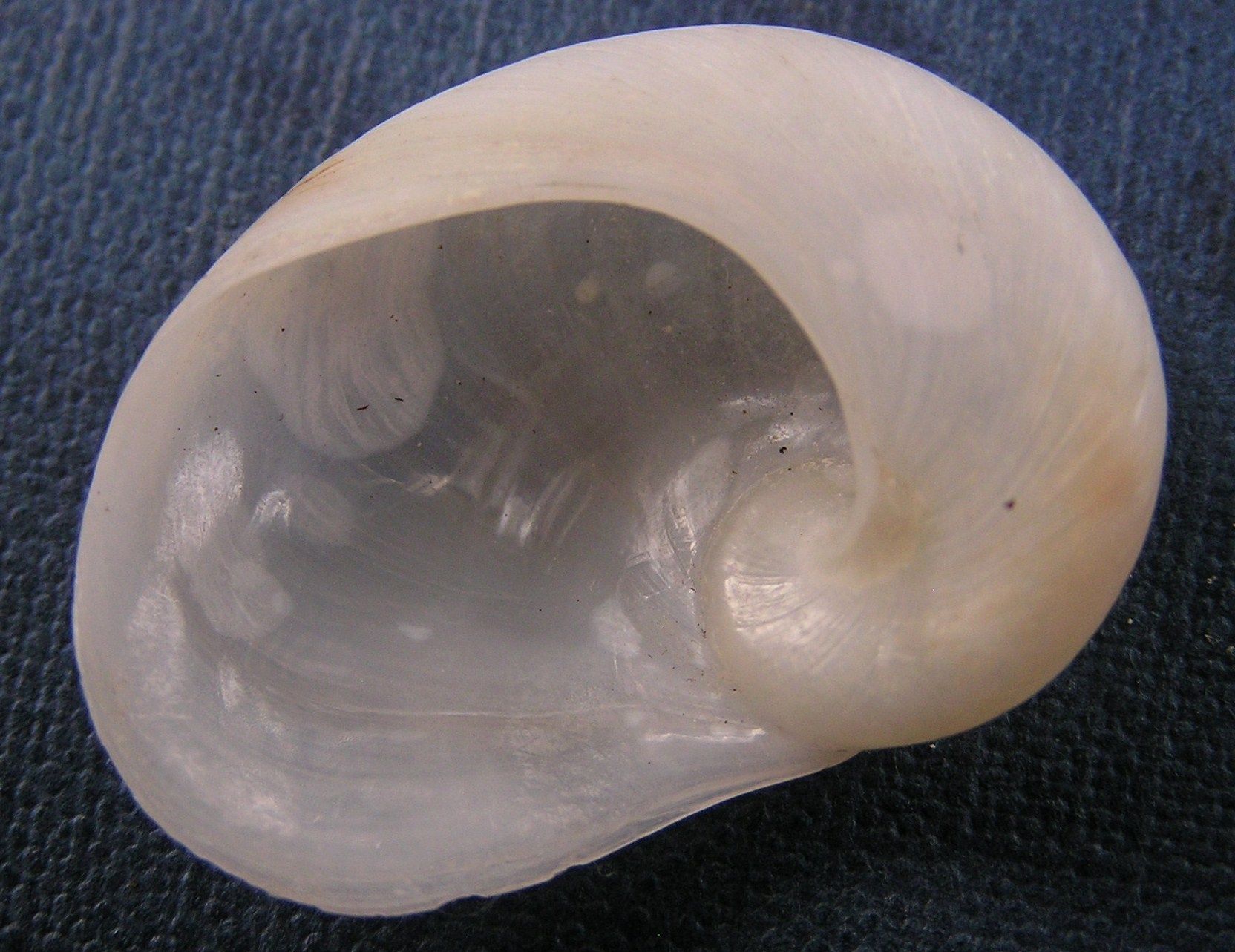 Sinum haliotoideum C. Linnaeus, 1758, a moon snail from the family Naticidae; Philippines